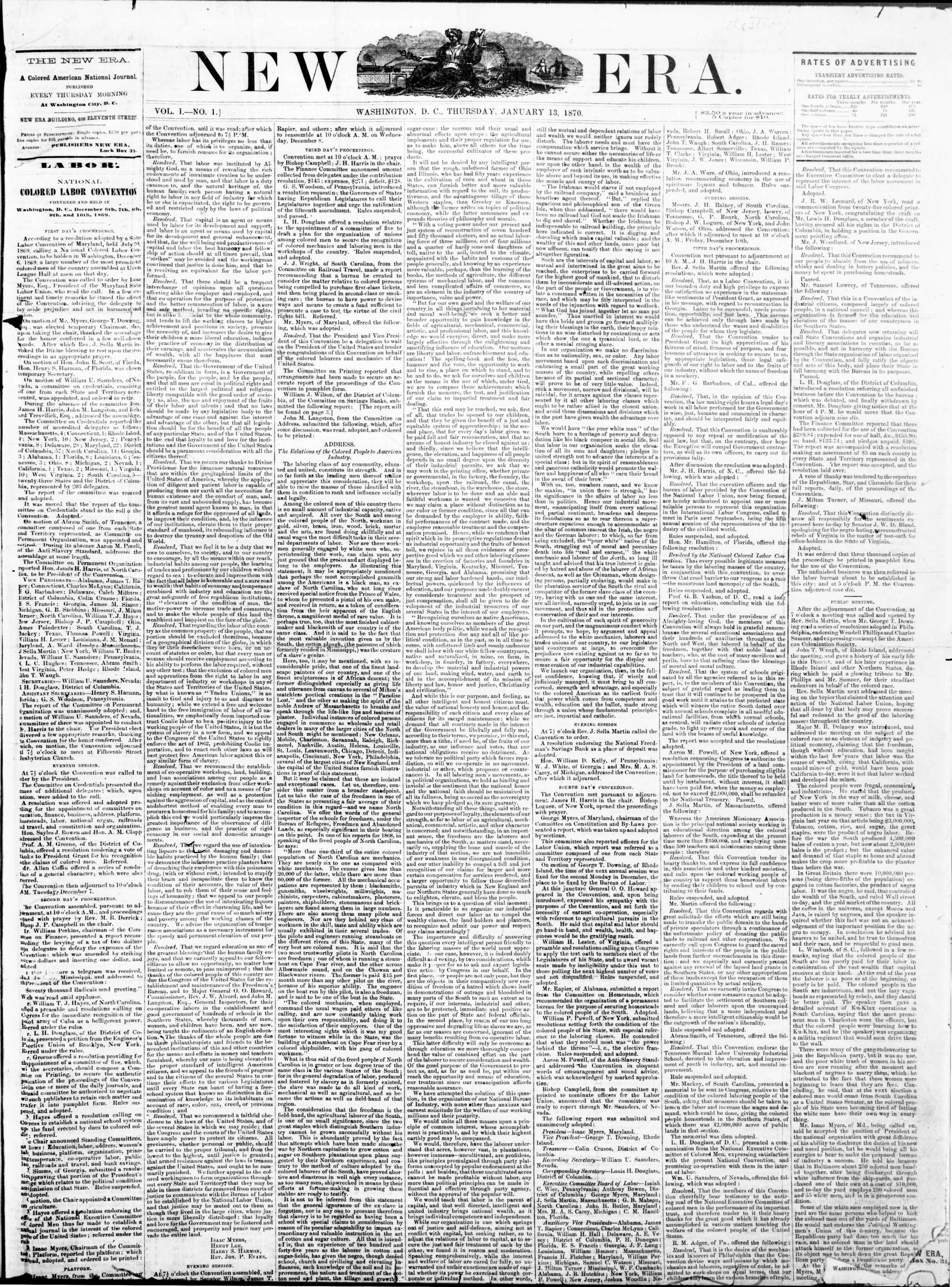 Front page of first issue of the New Era, an early African American newspaper in Washington, D.C., dated January 13, 1870. Largely devoted to coverage of the inaugural meeting of the Colored National Labor Union, which had taken place in December 1869.